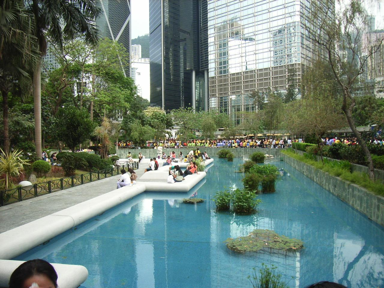 The Chater Road, Central, HK The marble statue in the pond is Swallows by Chu Hon-sun (1983)[1]